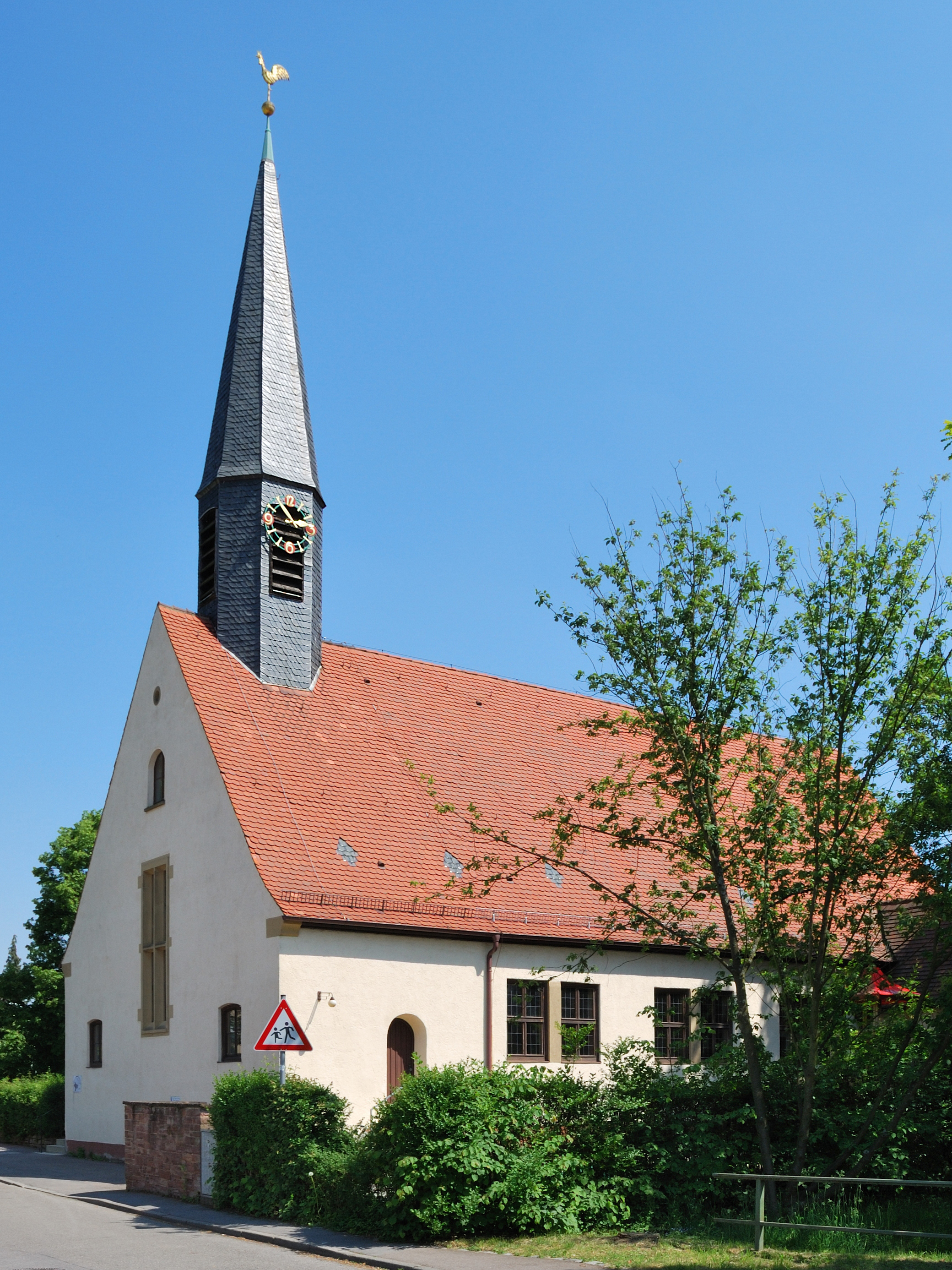 The protestant church Wolfbuschkirche in Stuttgart-Weilimdorf in Germany